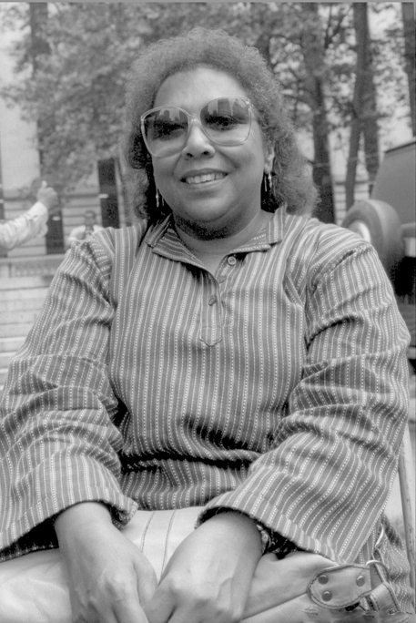 Etta Jones at Bryant Park, New York NY 8/10/84. Photo: Brian McMillen /